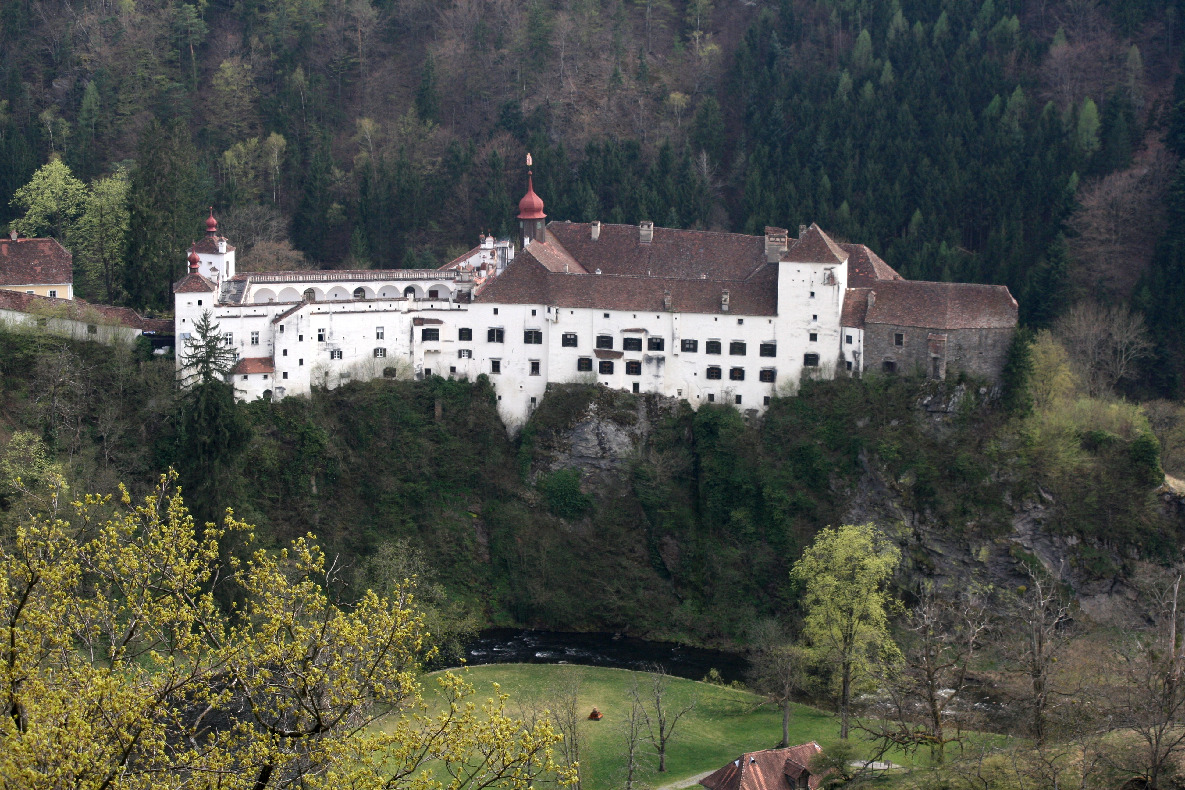 Herberstein castle near Stubenberg in Styria